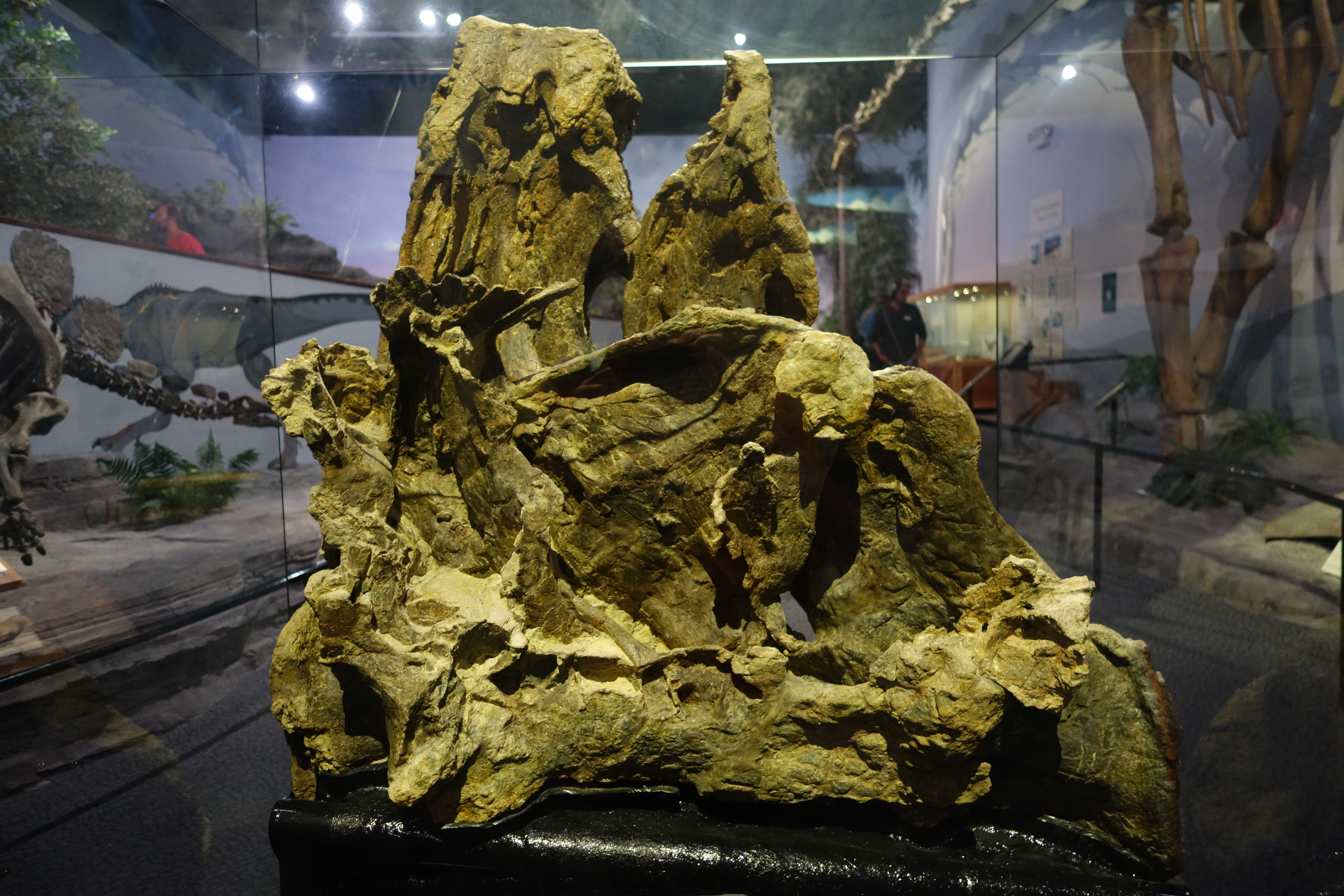 Pelvis of Supersaurus (original), on display at the Museum of Ancient Life, Utah. Specimen discovered in Dry Mesa Quarry, Colorado, in 1988.